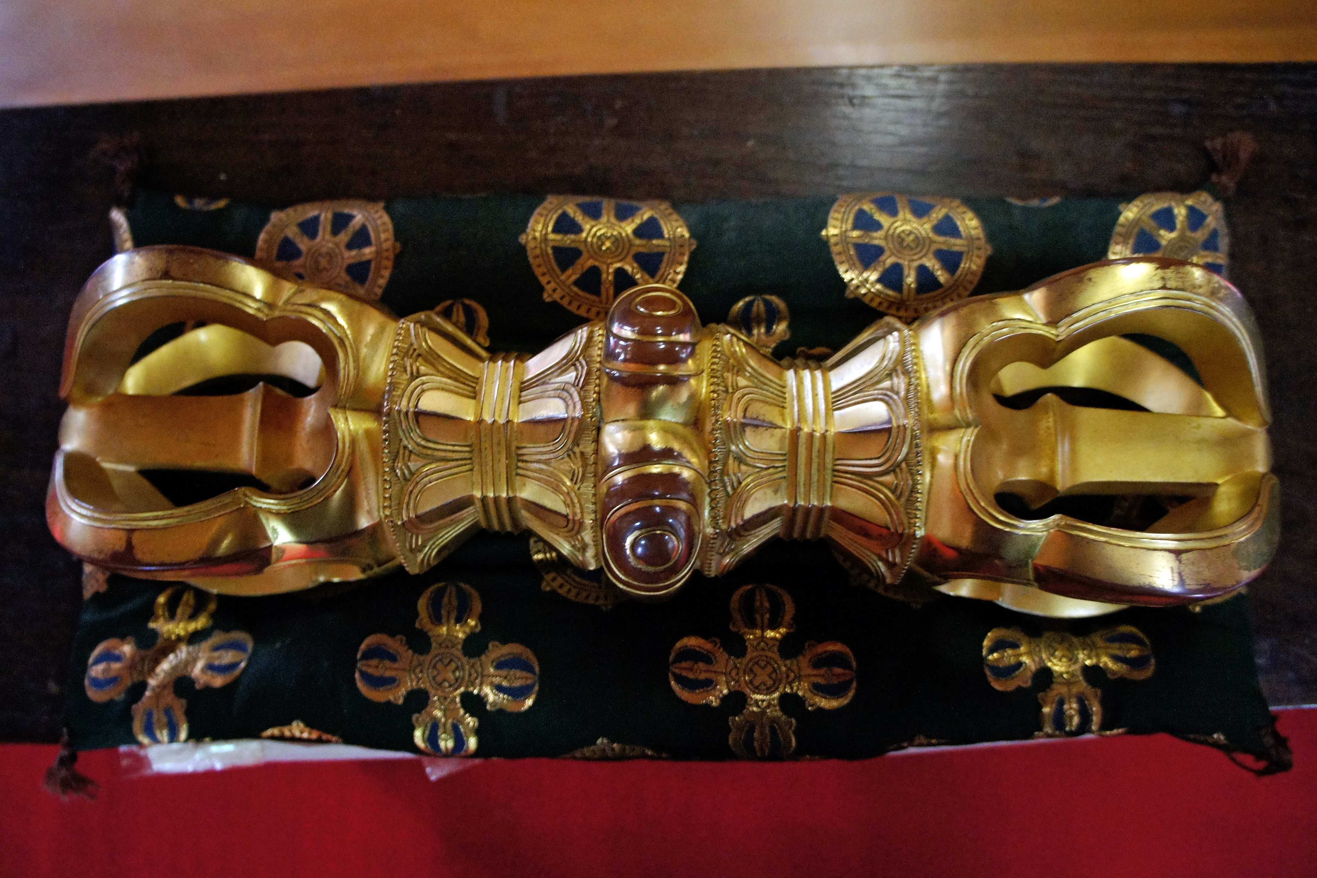 Shobo-ji in Nishikyo-ku, Kyoto, Kyoto prefecture, Japan